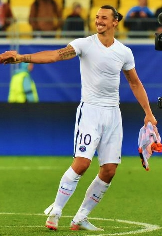 Zlatan Ibrahimović